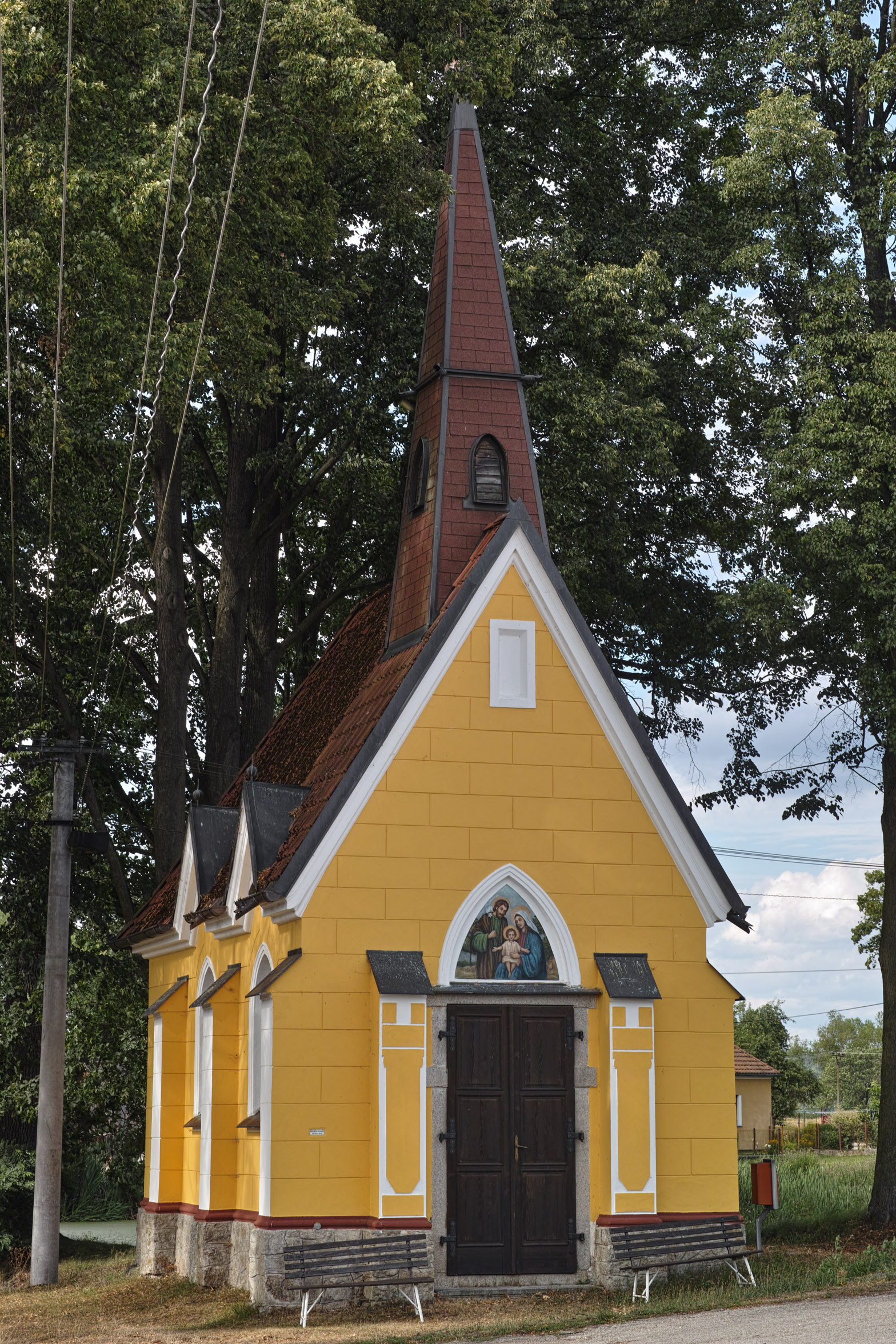 chapel in Lhotka near Olešnice